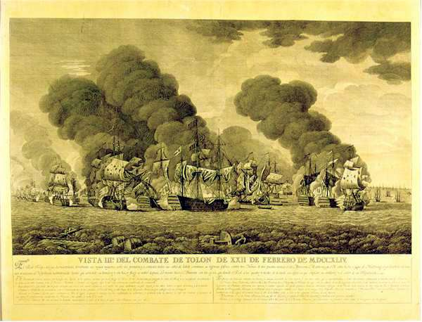 Franco-Spanish fleets off Toulon (engraving)